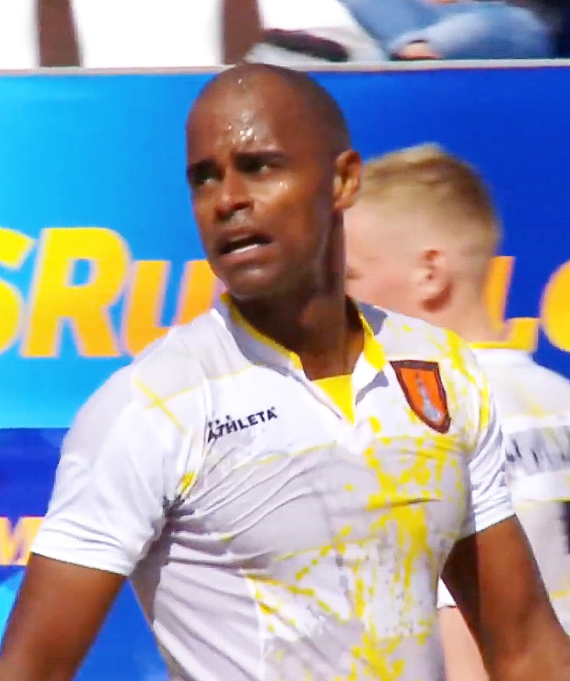 Japanese beach soccer player, Ozu Moreira, playing for FC City in the 2019 Russian Superleague.